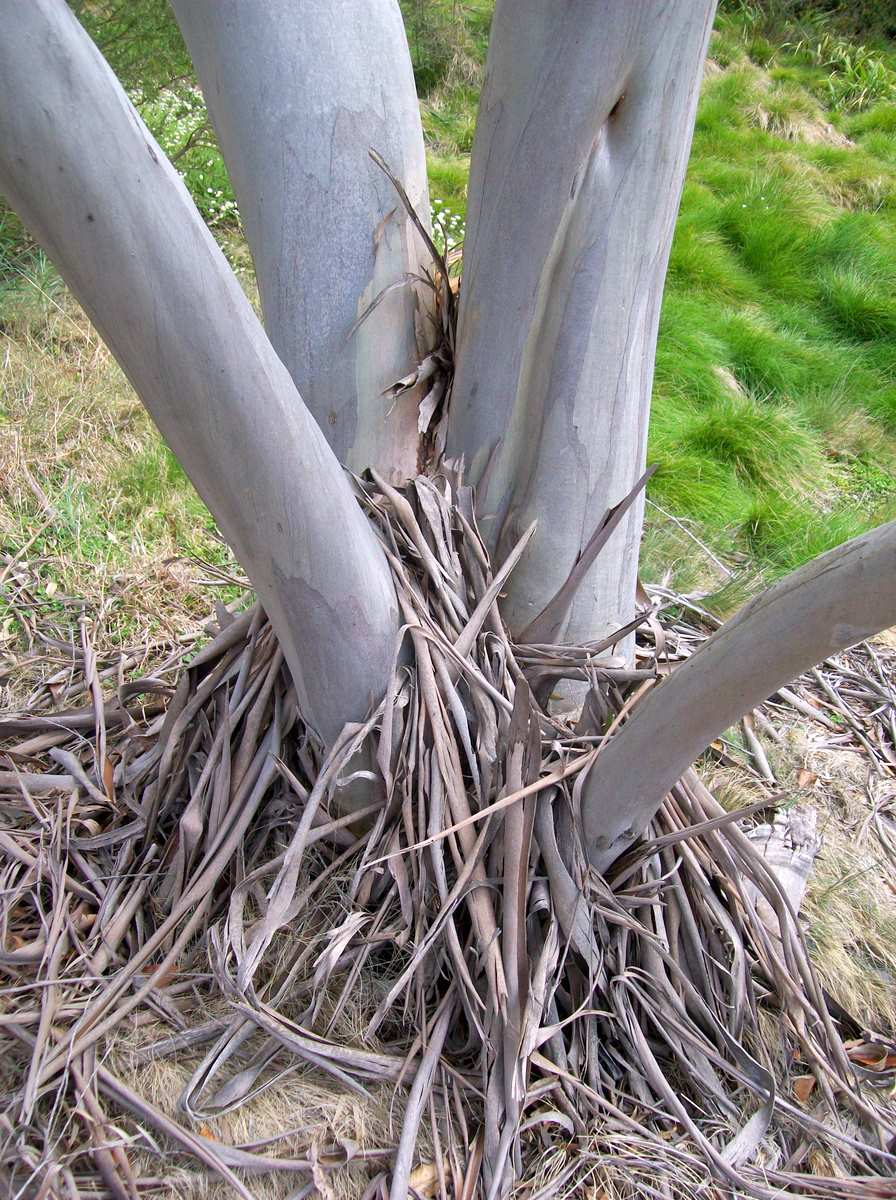 White Sallee, Eucalyptus moorei, at Mount Tomah Botanic Gardens, Australia